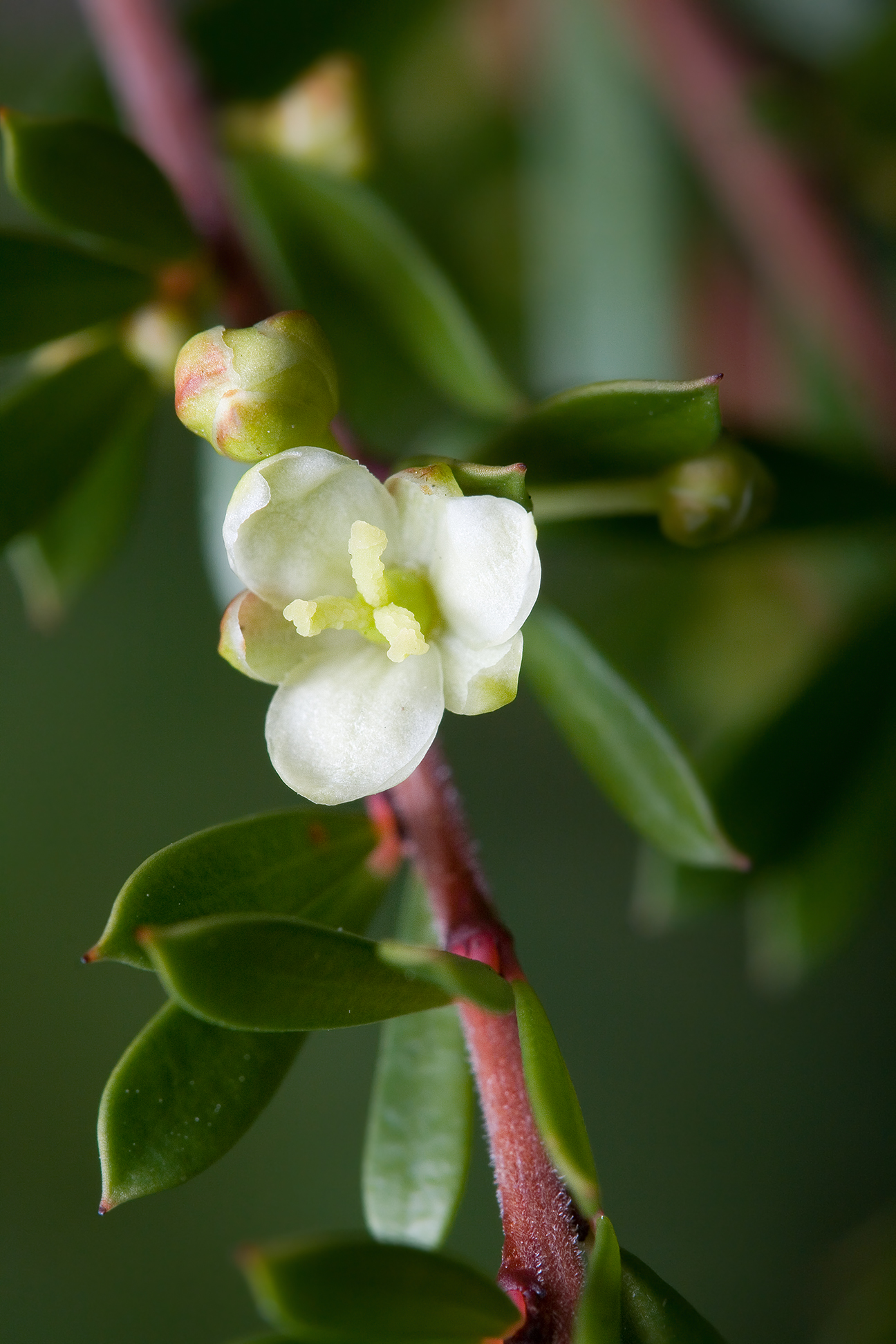 Micrantheum serpentinum, Royal Tasmanian Botanical Gardens, Tasmania, Australia Camera data Camera Canon EOS 400D Lens Tamron EF 180mm f3.5 1:1 Macro Flash Shoot through umbrella left Focal length 180 mm Aperture f/9 Exposure time 1/200 s Sensivity ISO 400